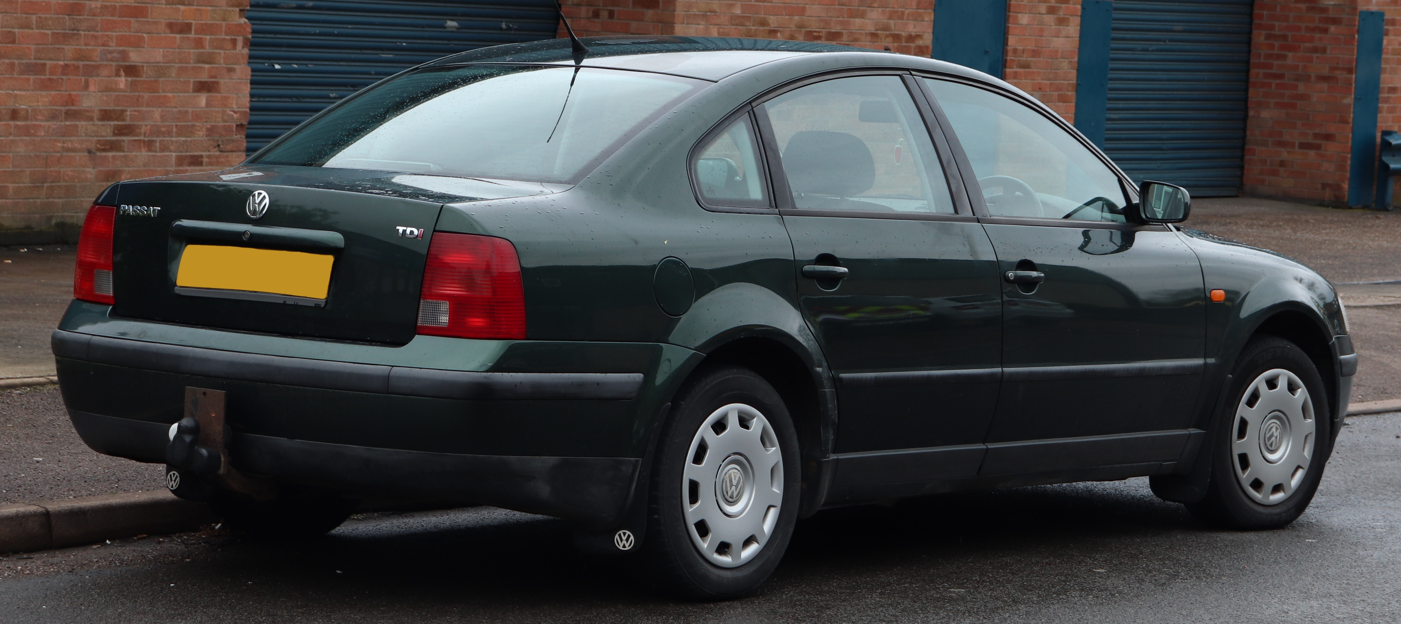 1998 Volkswagen Passat S TDi 1.9 Rear Taken in Leamington Spa